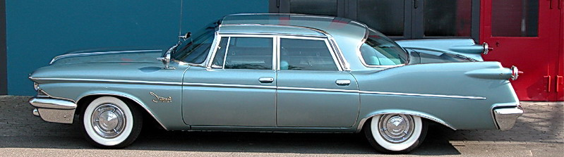 1960 Imperial Crown PY1-M Series four door sedan